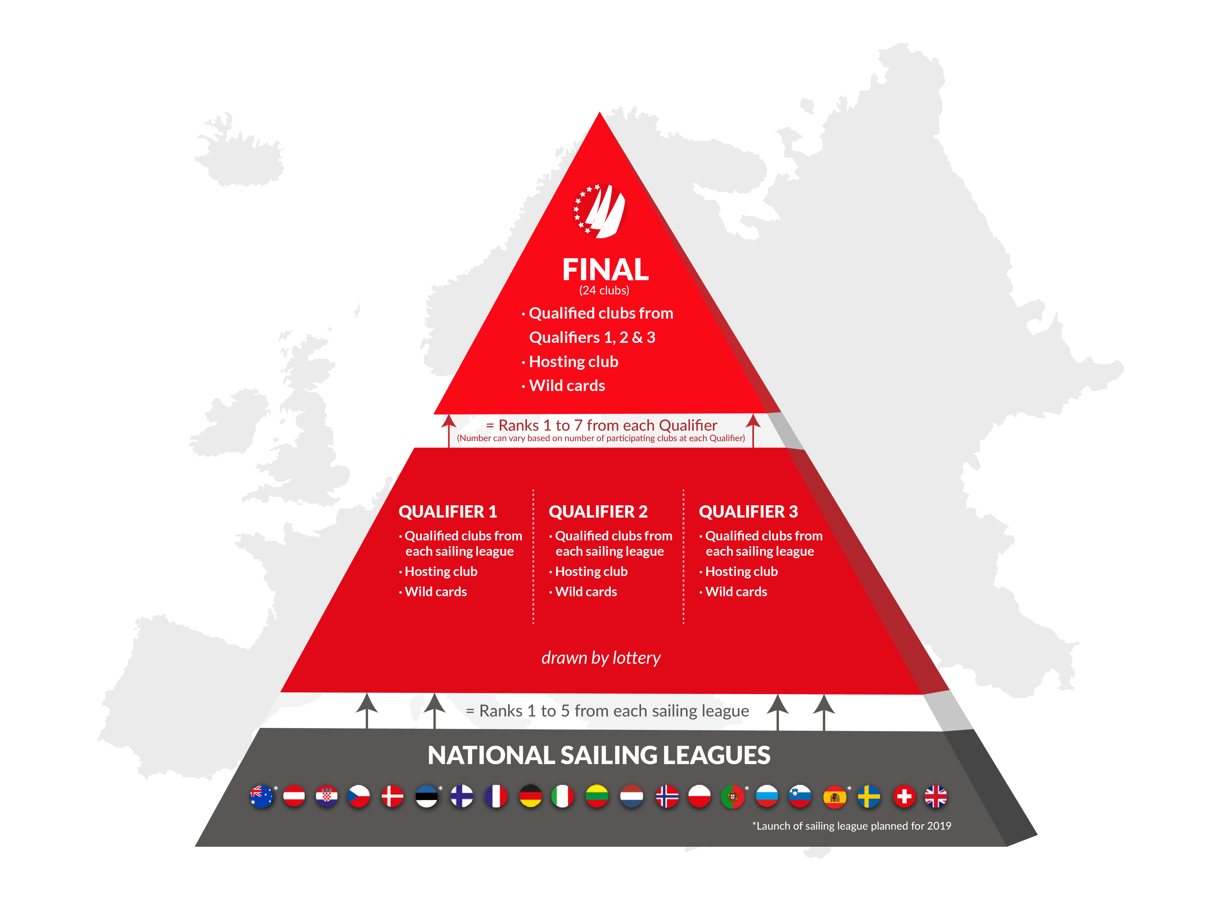 The Modus of SAILING Champions League.